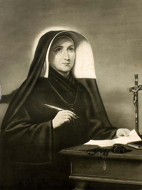 Jeanne-Élisabeth Bichier des Ages, founder of the congregarion of Daughters of the Cross.